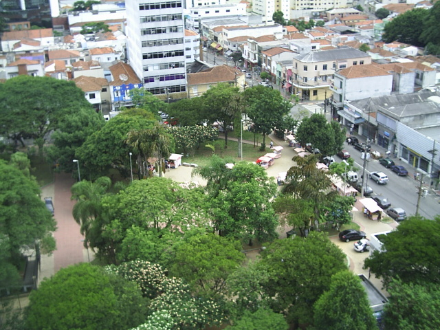 Square Sílvio Romero in São Paulo City.